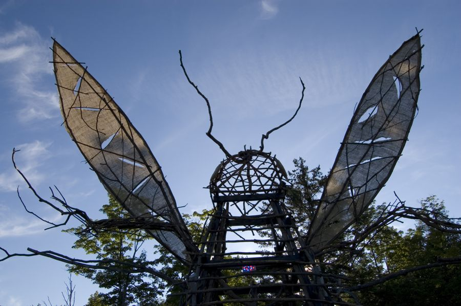 A photo of the firefly effigy that is burned doing the Firefly Regional Burning Man Event.